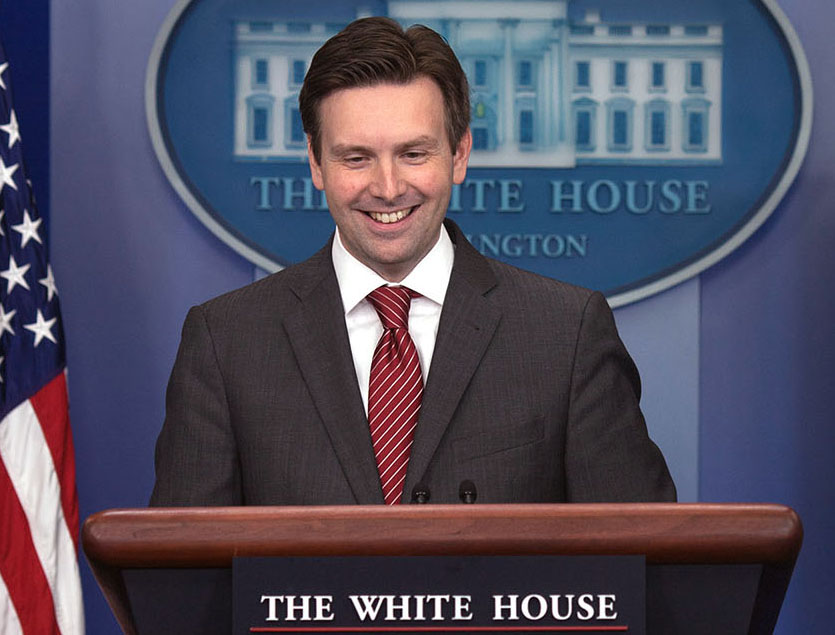 Josh Earnest delivering a press briefing at the White House in Washington, D.C.